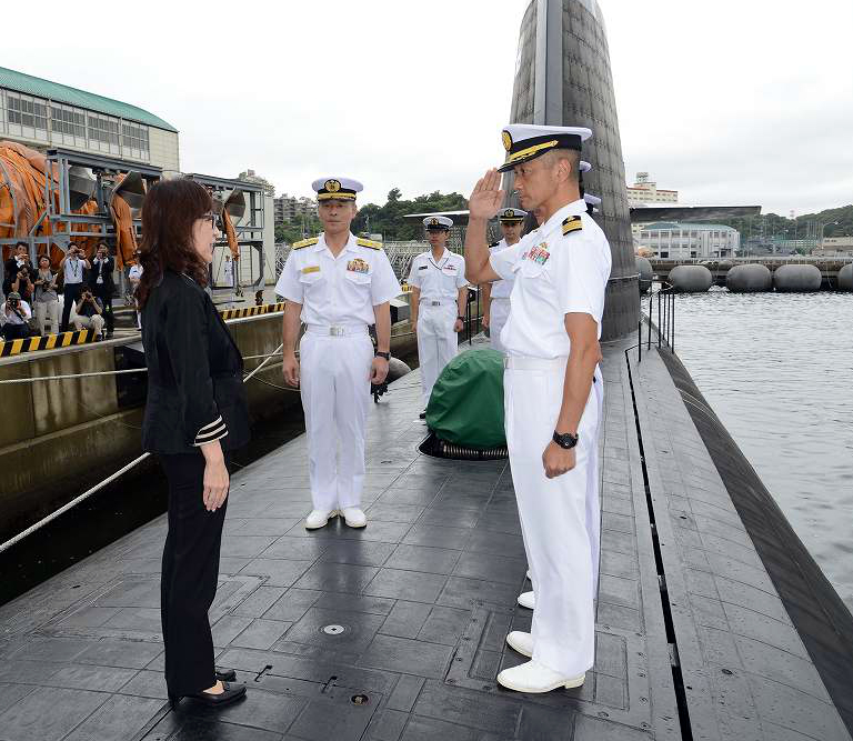 Tomomi Inada, Minister of Defense, inspected JS Kokuryu in Yokosuka City, Kanagawa Prefecture on August 23, 2016.